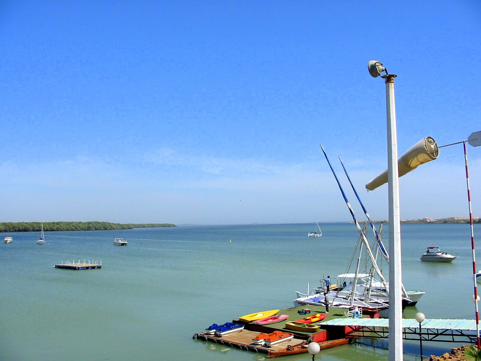 Defence Housing Authority Marina Club, Karachi. Photography by Omar Qureshi